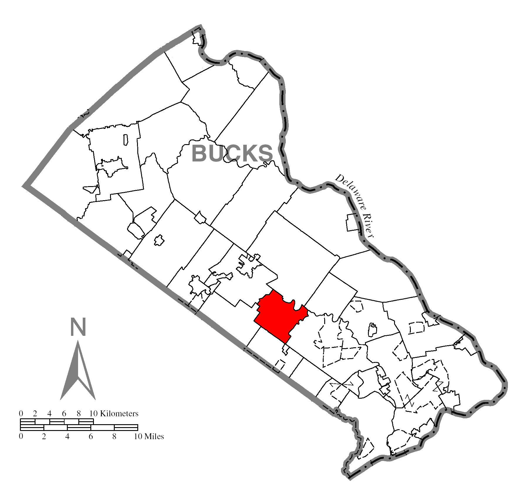 A map of Bucks County showing Warwick Township, Pennsylvania (alternate) highlighted on the map.